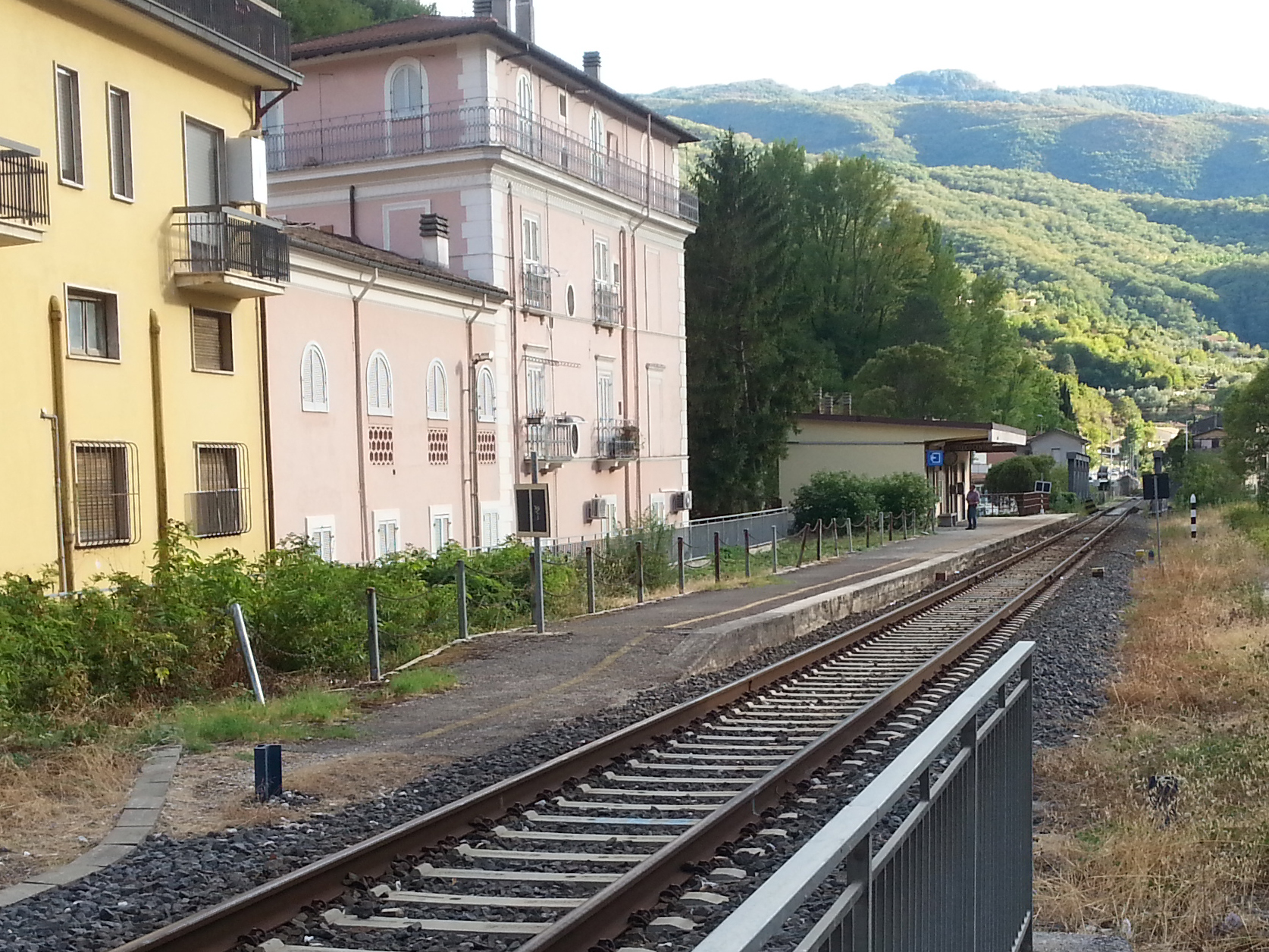 The Antrodoco Centro railway stop (province of Rieti, central Italy), on the Terni-Rieti-L'Aquila-Sulmona line, as seen from the level crossing on the tracks to L'Aquila